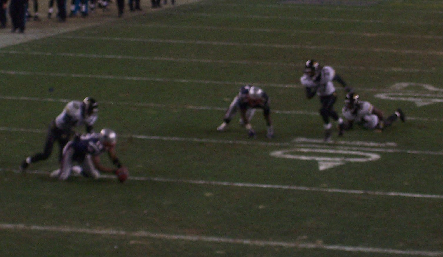 André Davis recovers a fumble for the New England Patriots' against the Jacksonville Jaguars in a 2005-06 NFL Wild Card Playoff game.